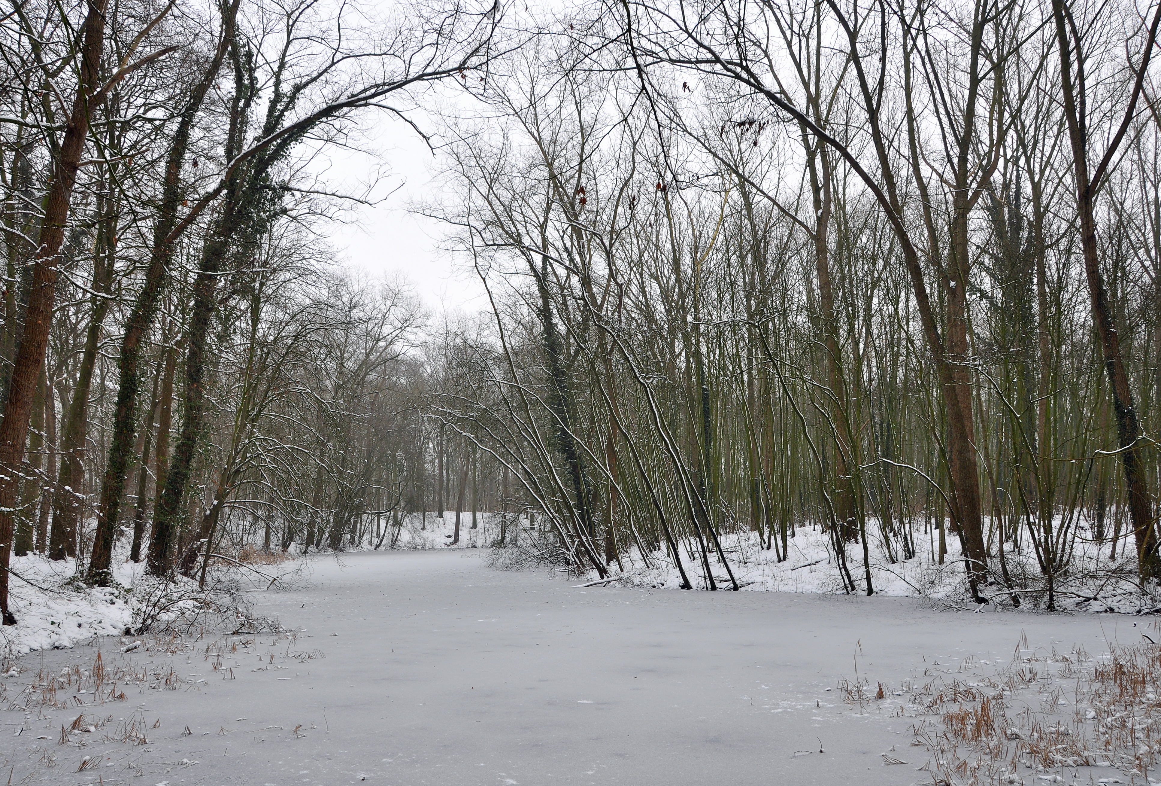 Koolkerke (Bruges, Belgium): the Fort van Beieren in winter